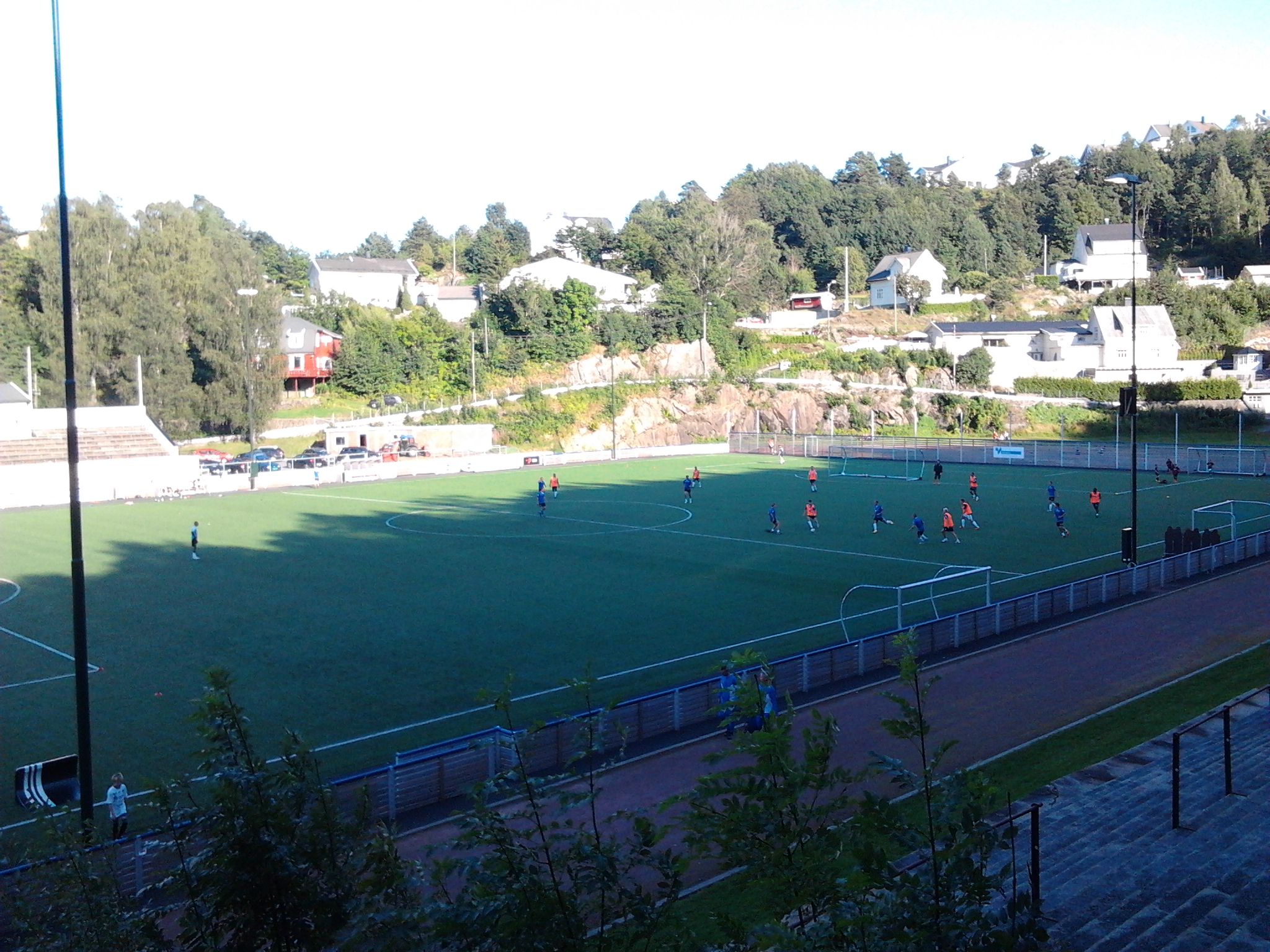 Bjønnes soccer stadion at Myrene, Arendal, Norway